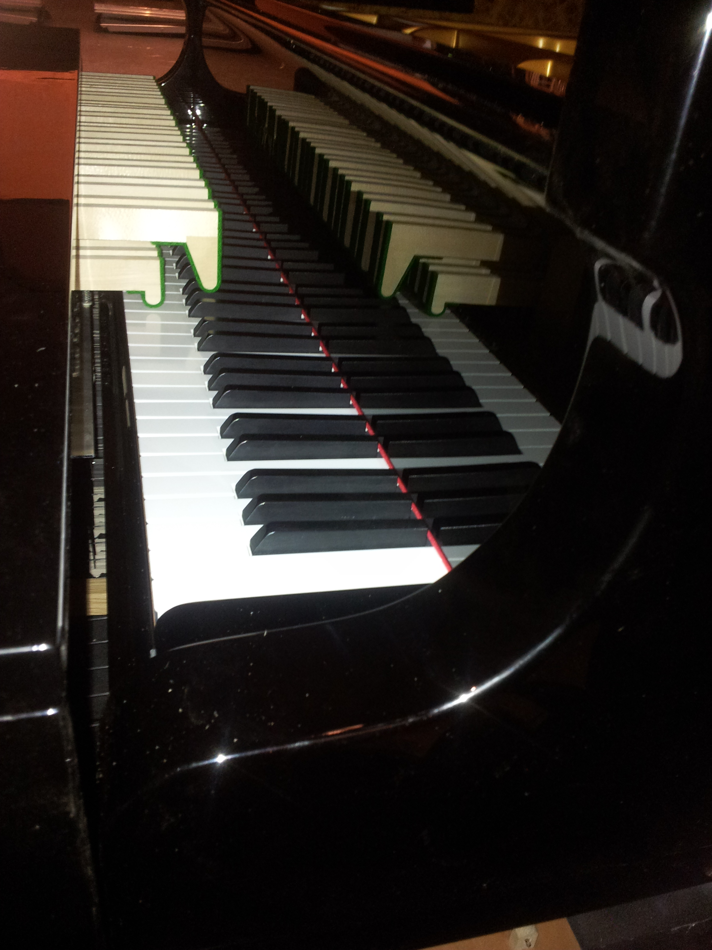 the wooden fingers of Pinchi Pedalpiano System connected to a normal grand piano keyboard